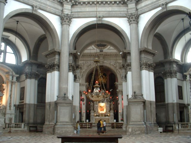 Interior of the Basilica di Santa Maria della Salute, Venice, facing the high altar. Photo taken by Necrothesp, 15 May 2004.